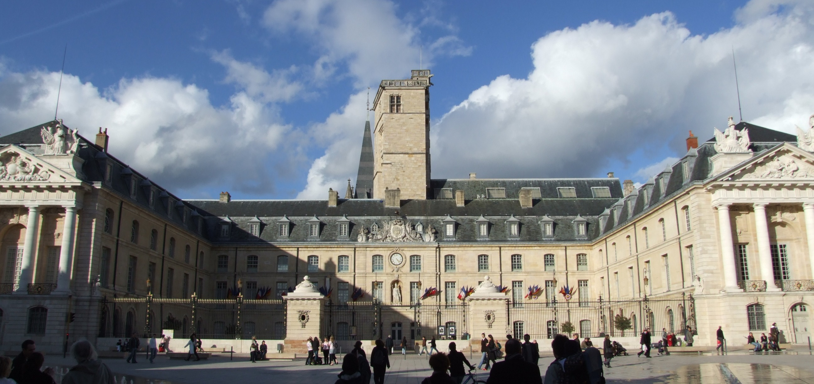 Dijon, Burgundy, FRANCE